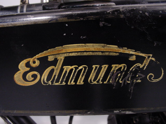 Edmund logo on a motorcycle tank, from Charles Edmund & Co., of Chester, UK, which ceased to exist in 1926.